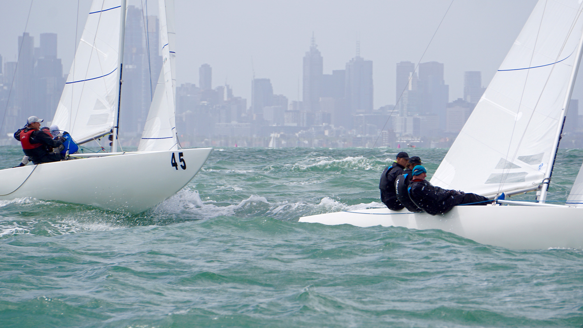 Etchells Melbourne 2020